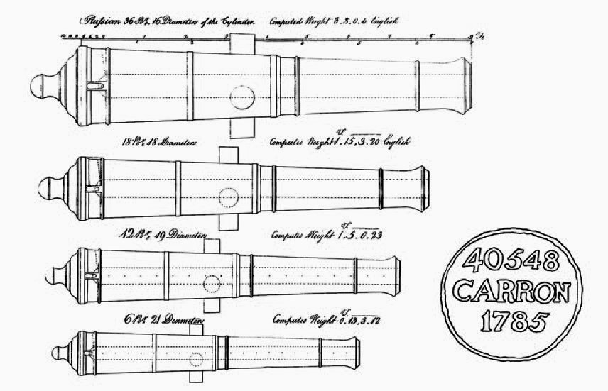 Fragment of cannon drafts and drawing of a trademark on the cannon trunnion placed on the 4th bastion of Sevastopol defence during Crimean War.